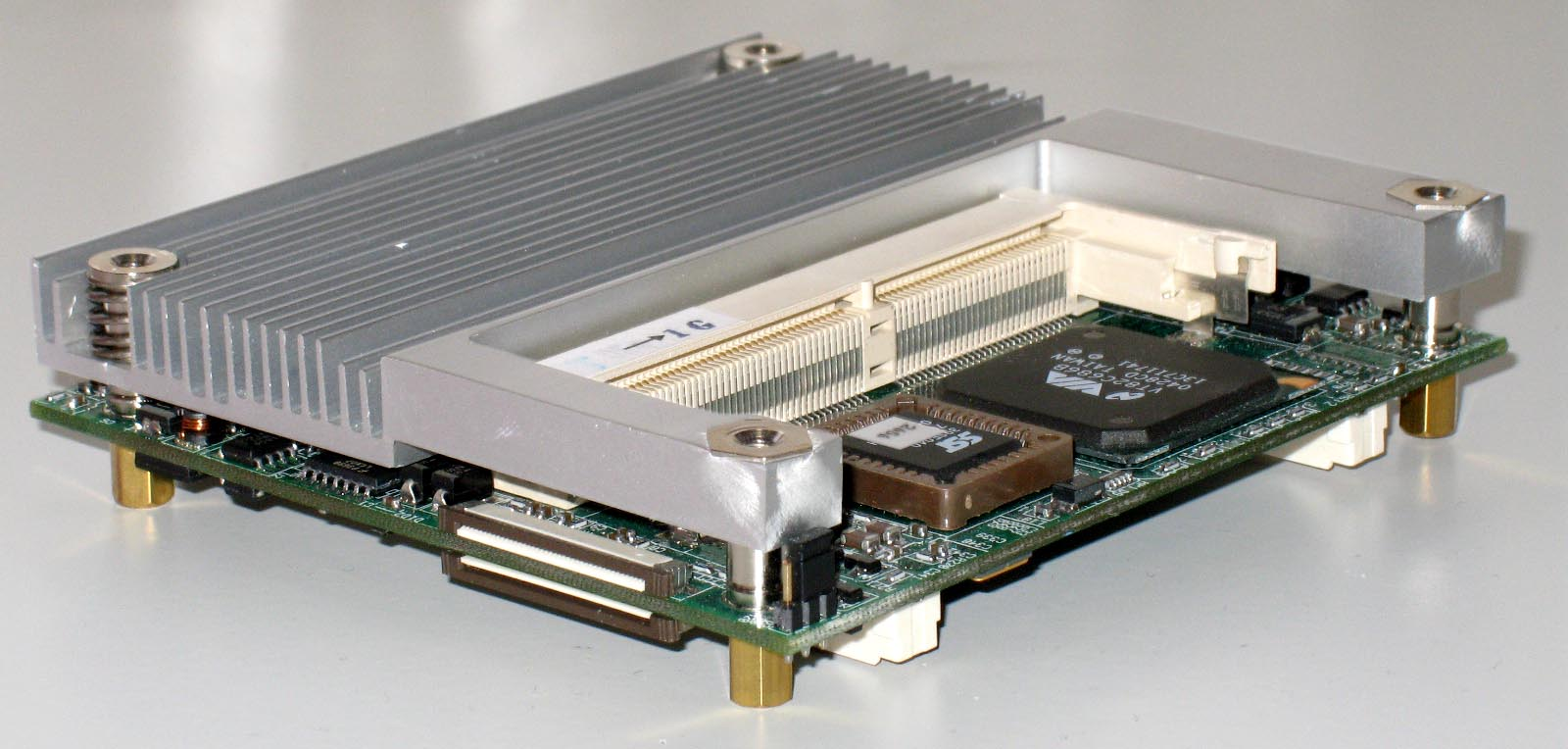 STX module without RAM (DIMM)